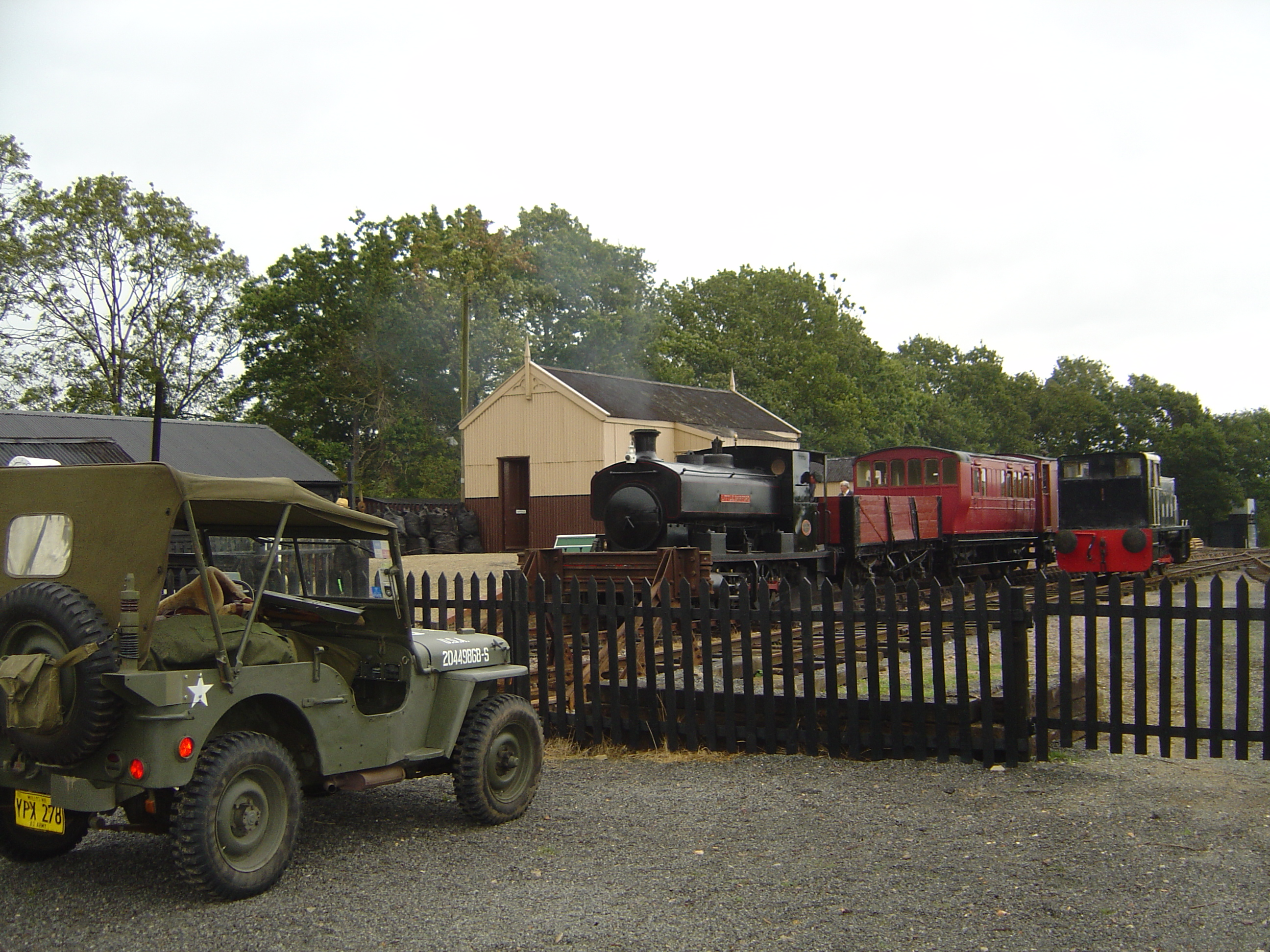 Taken by Nick Fowler on 18/9/04